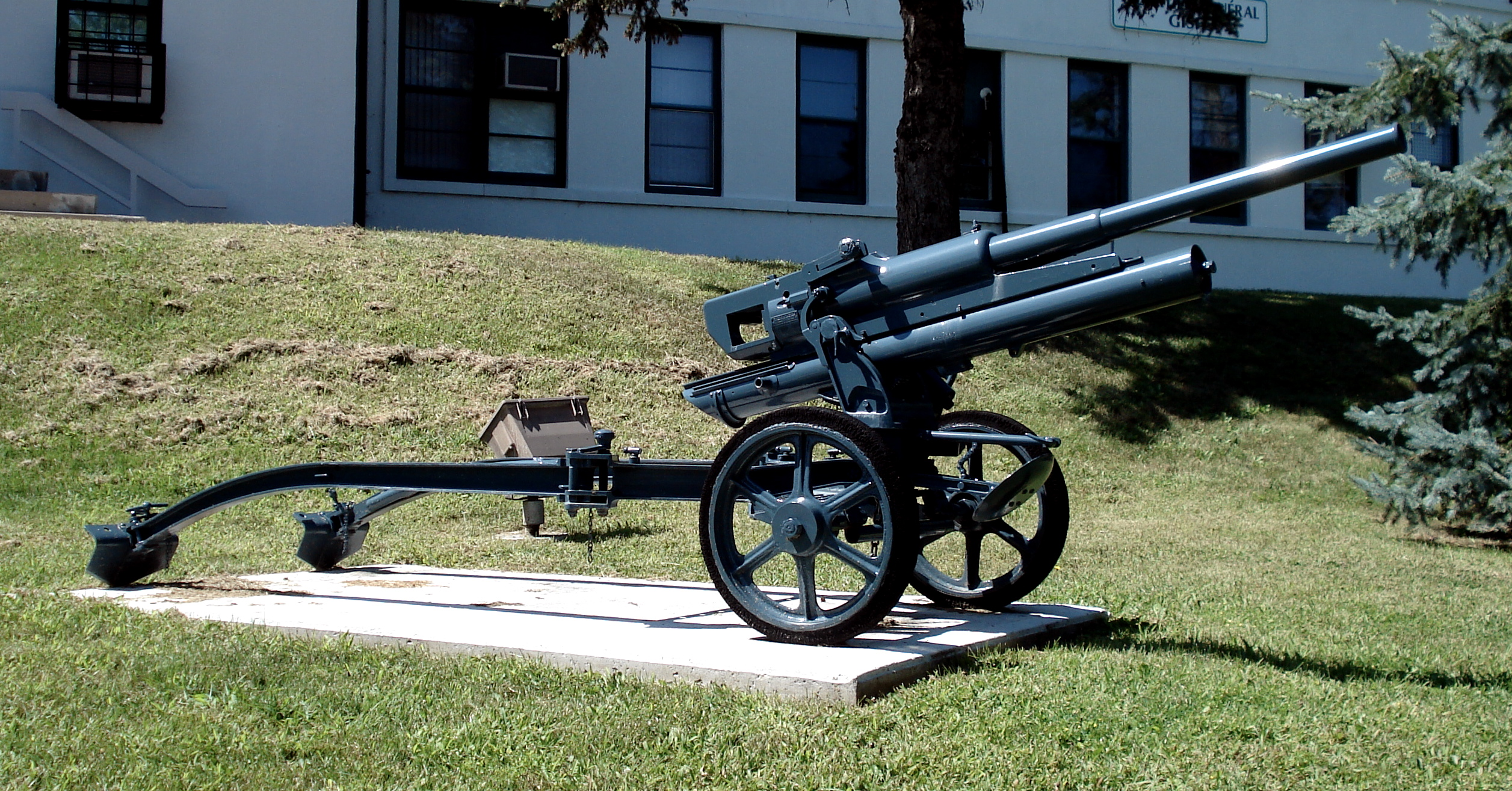 Italian 47 mm anti-tank gun (Cannone da 47/32) displayed on the grounds of CFB Borden (Base Borden Military Museum). The canon stamp states: CANNONE DA 47/32 MOD. 39 Photo taken on August 12, 2006. Source: Photo by me, User:Balcer.